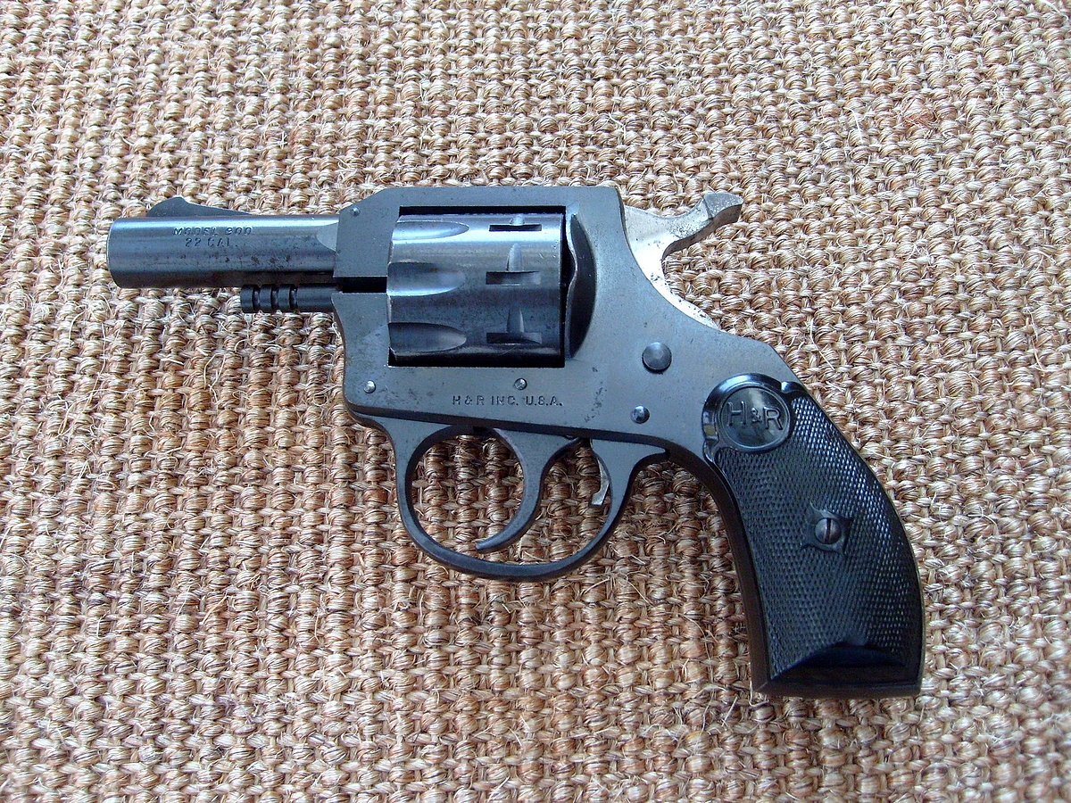 H&R Model 900, a 9-shot, .22LR Double Action Revolver. Made in the U.S.A.